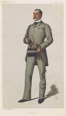 Caricature of Lt-Col Ralph Vivian. Caption read "Ralph".